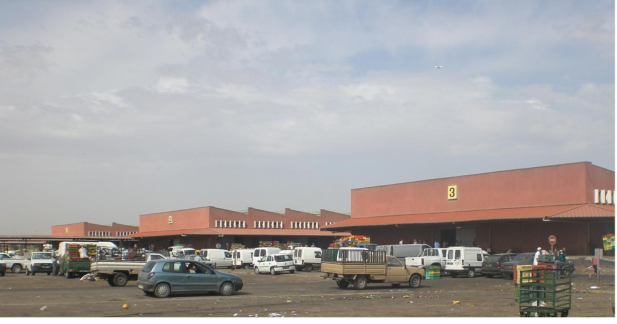 The Marché de Gros of Tunis